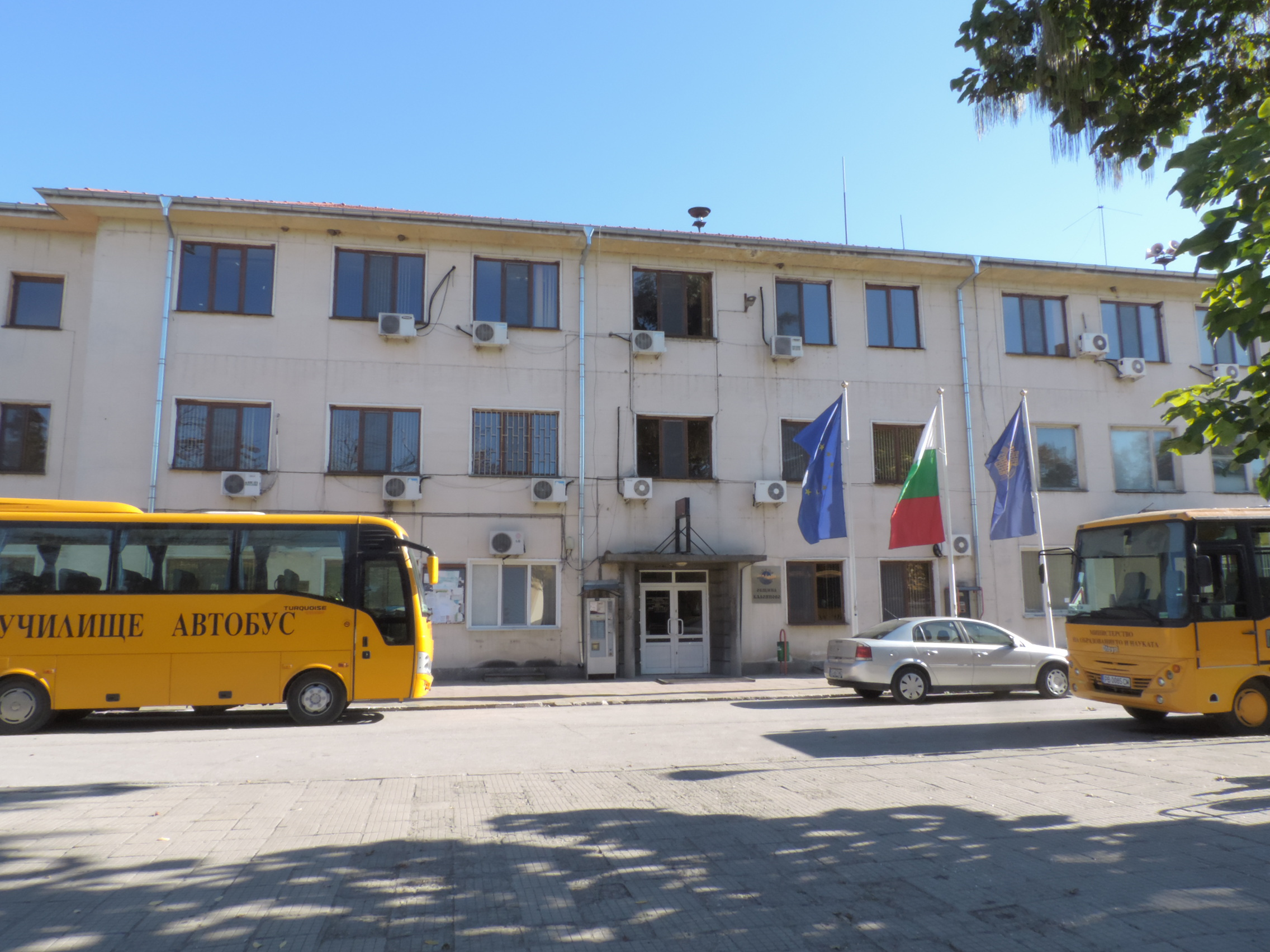 Kaloyanovo Municipality, Plovdiv Province